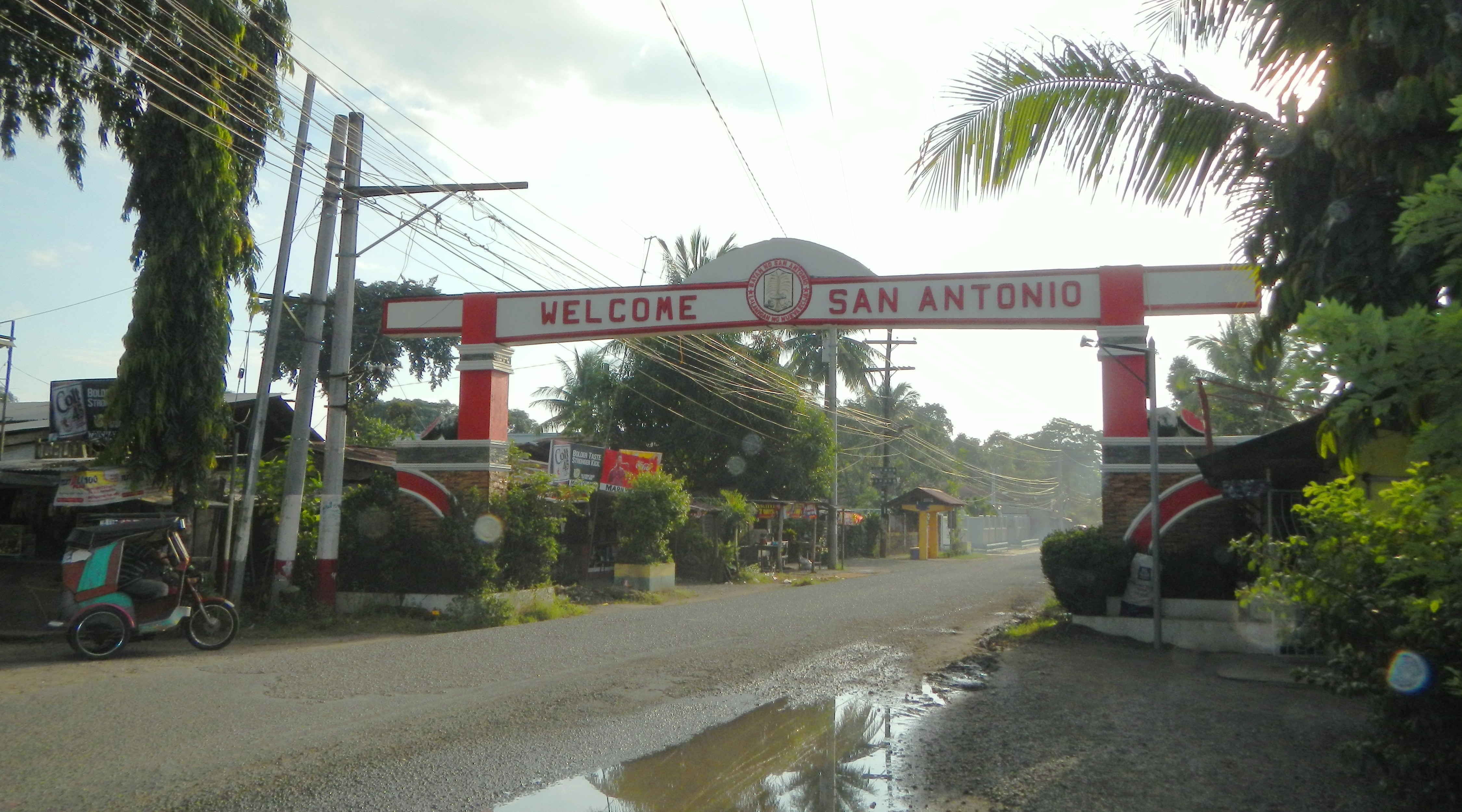 Welcome marker, San Antonio, Nueva Ecija